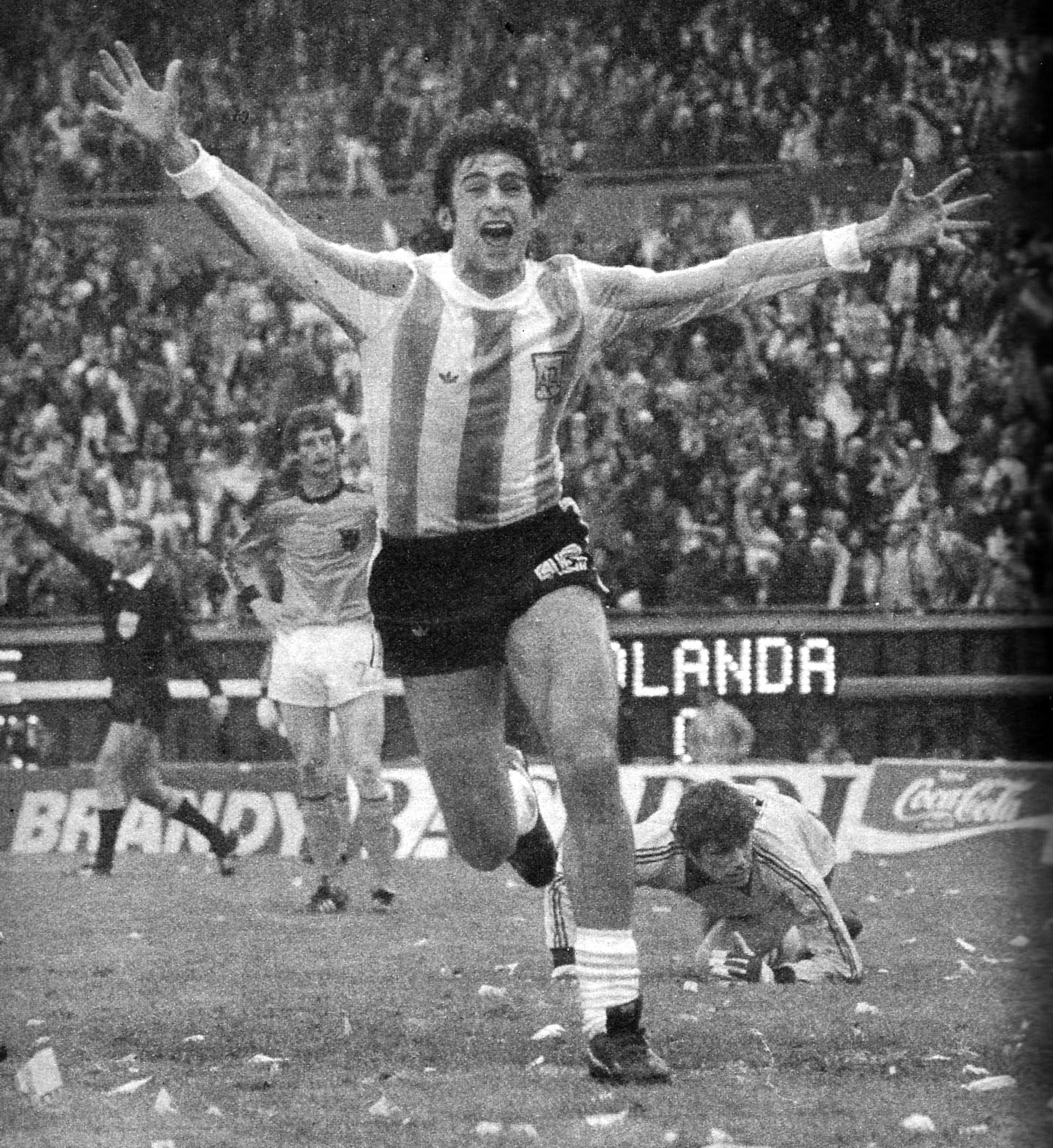 Mario Kempes celebrating a goal in the final match v. Netherlands, at the 1978 FIFA World Cup.